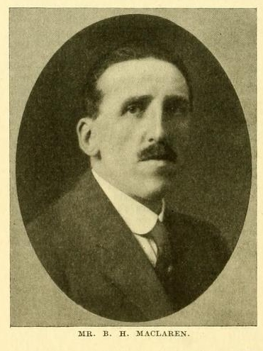 Captain Bertie Hubbard MacClaren, Gardener and superintendent of Gardens and Parks, Brighton